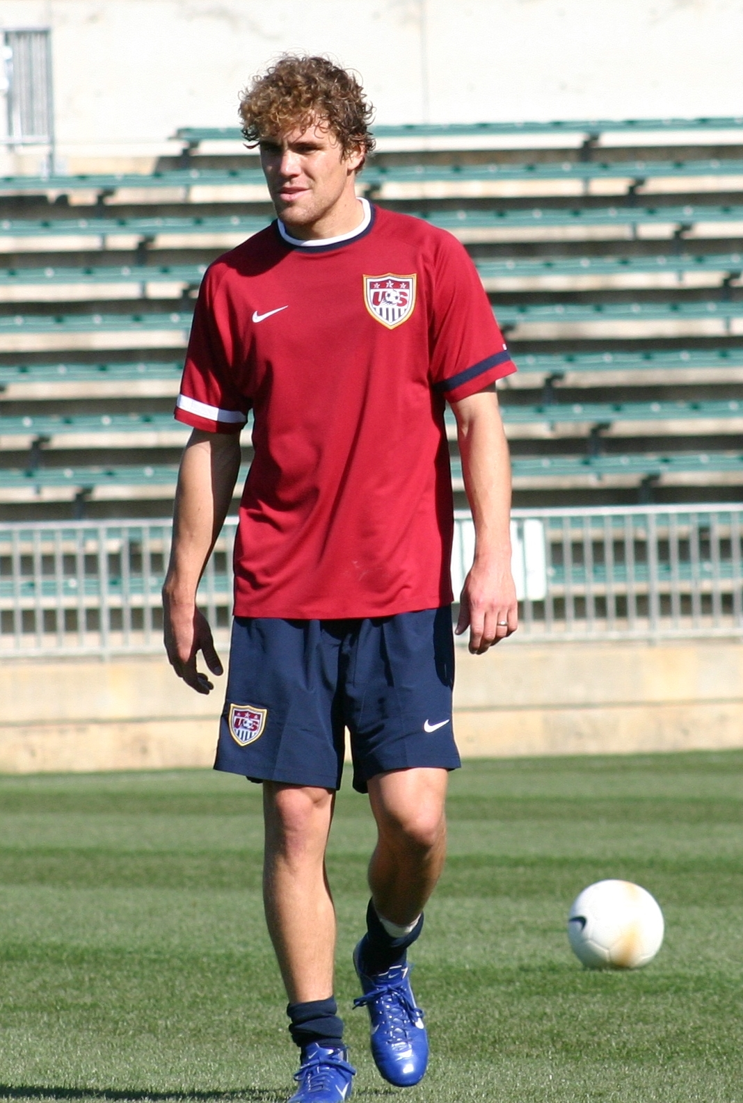 Chris Albright, during USMNT practice